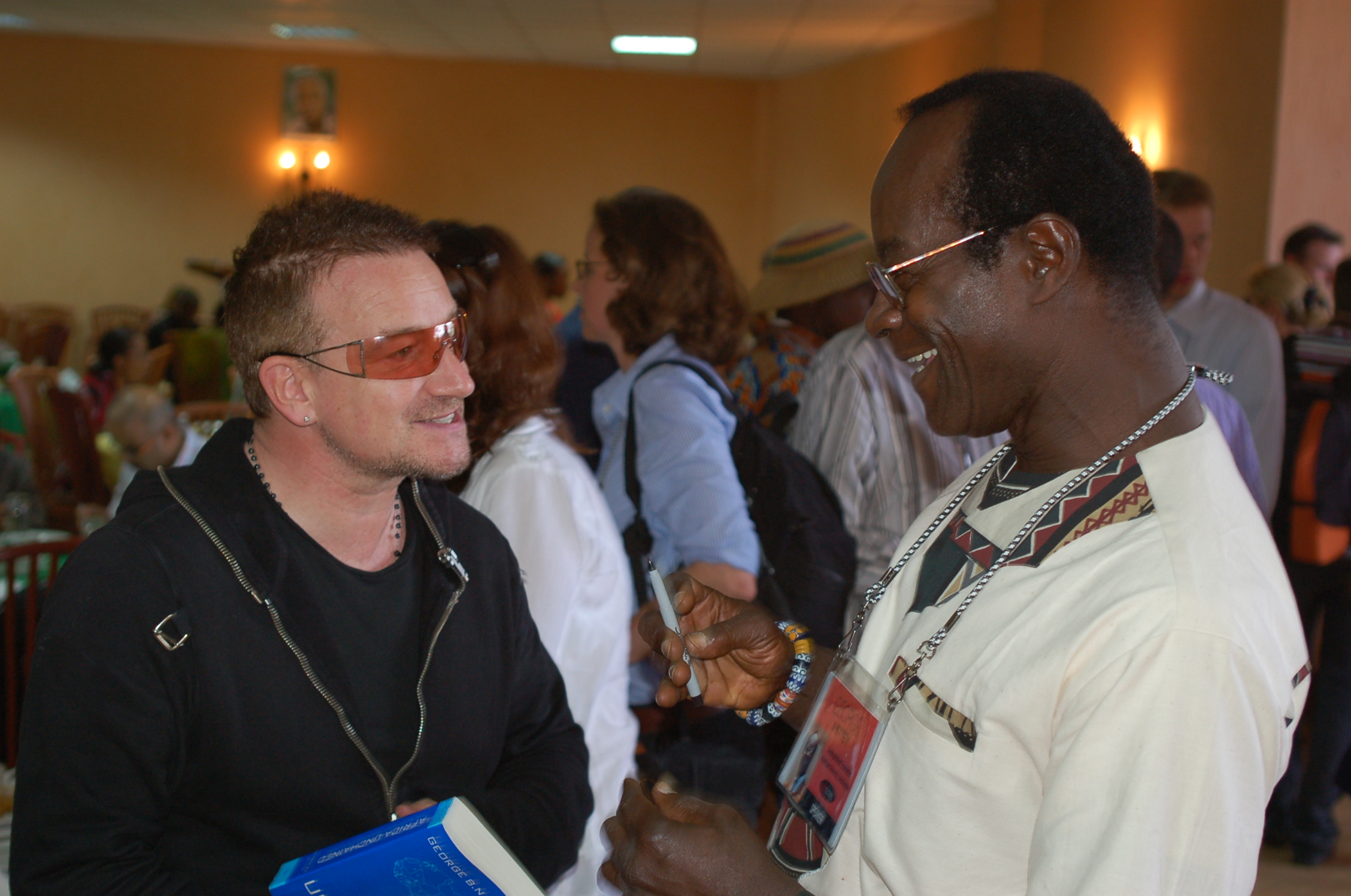 George Ayittey, economist from Ghana, talking with Bono at the TEDGlobal 2007 in Tanzania.